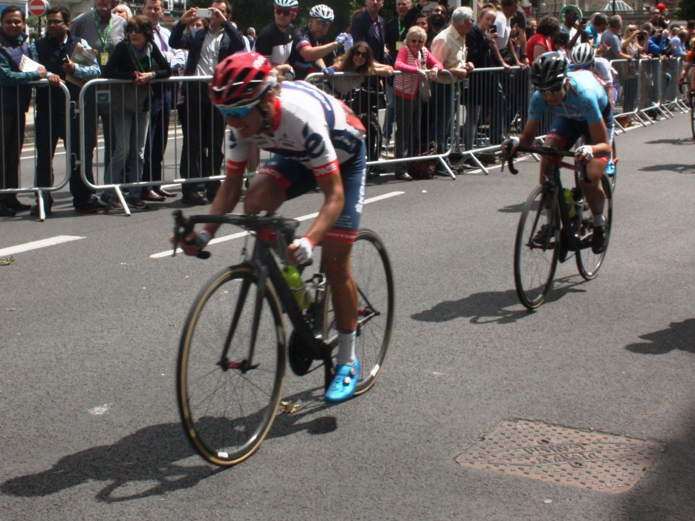 Ashleigh Moolman-Pasio and Cecilie Uttrup Ludwig race towards the finishing line in Royal Leamington Spa on stage 6 of the 2017 Women's Tour. Both ride for Cervélo-Bigla but Ludwig is wearing the UCI Women's World Tour best young rider jersey.